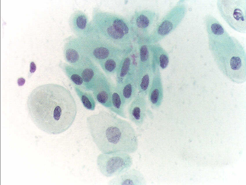 Pap test, Papanicolau stain, 400x. Atrophic squamous cells in postmenopausal woman.